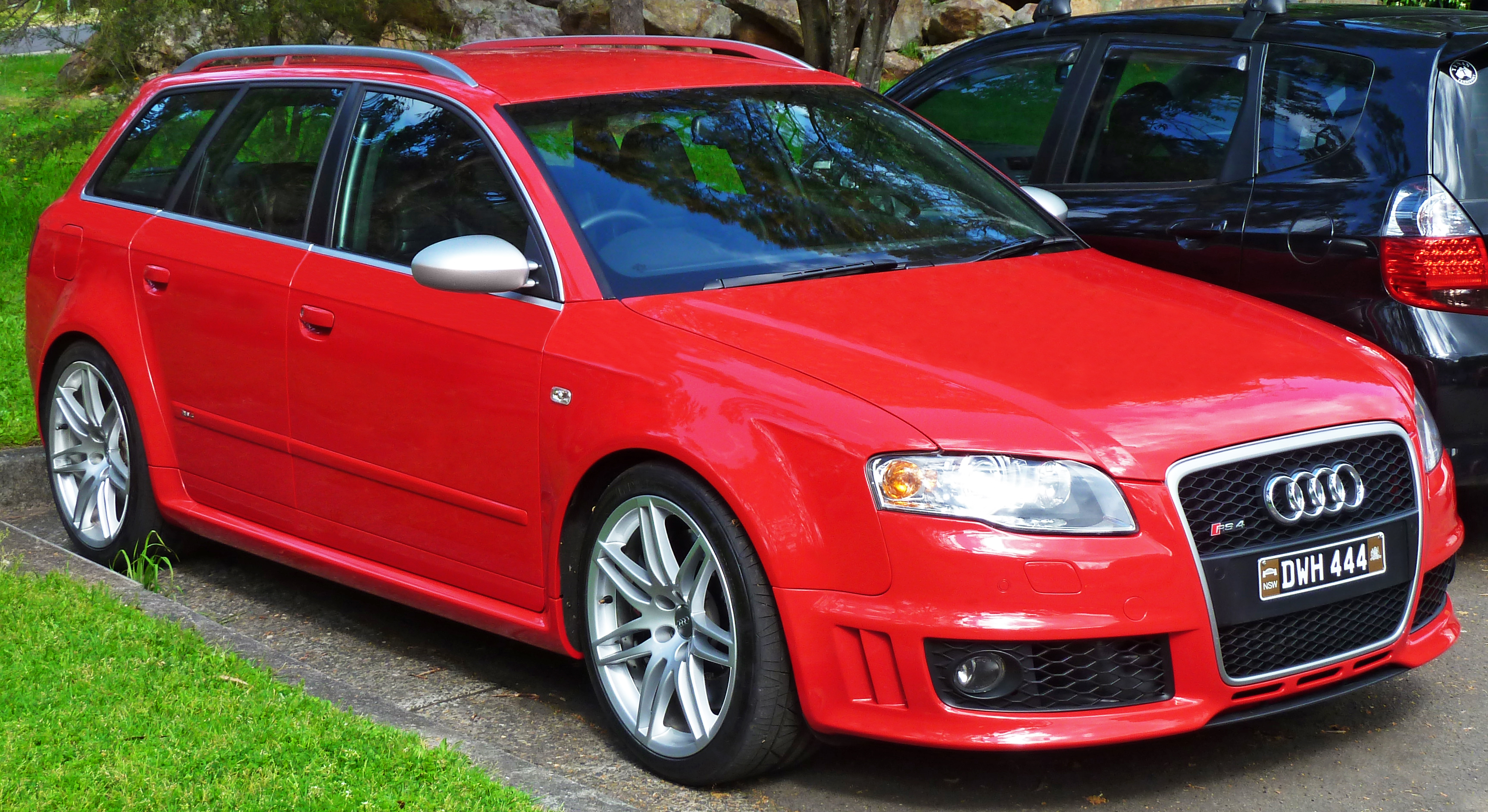 2006–2008 Audi RS 4 (8ED) quattro Avant. Photographed in Macquarie Park, New South Wales, Australia.